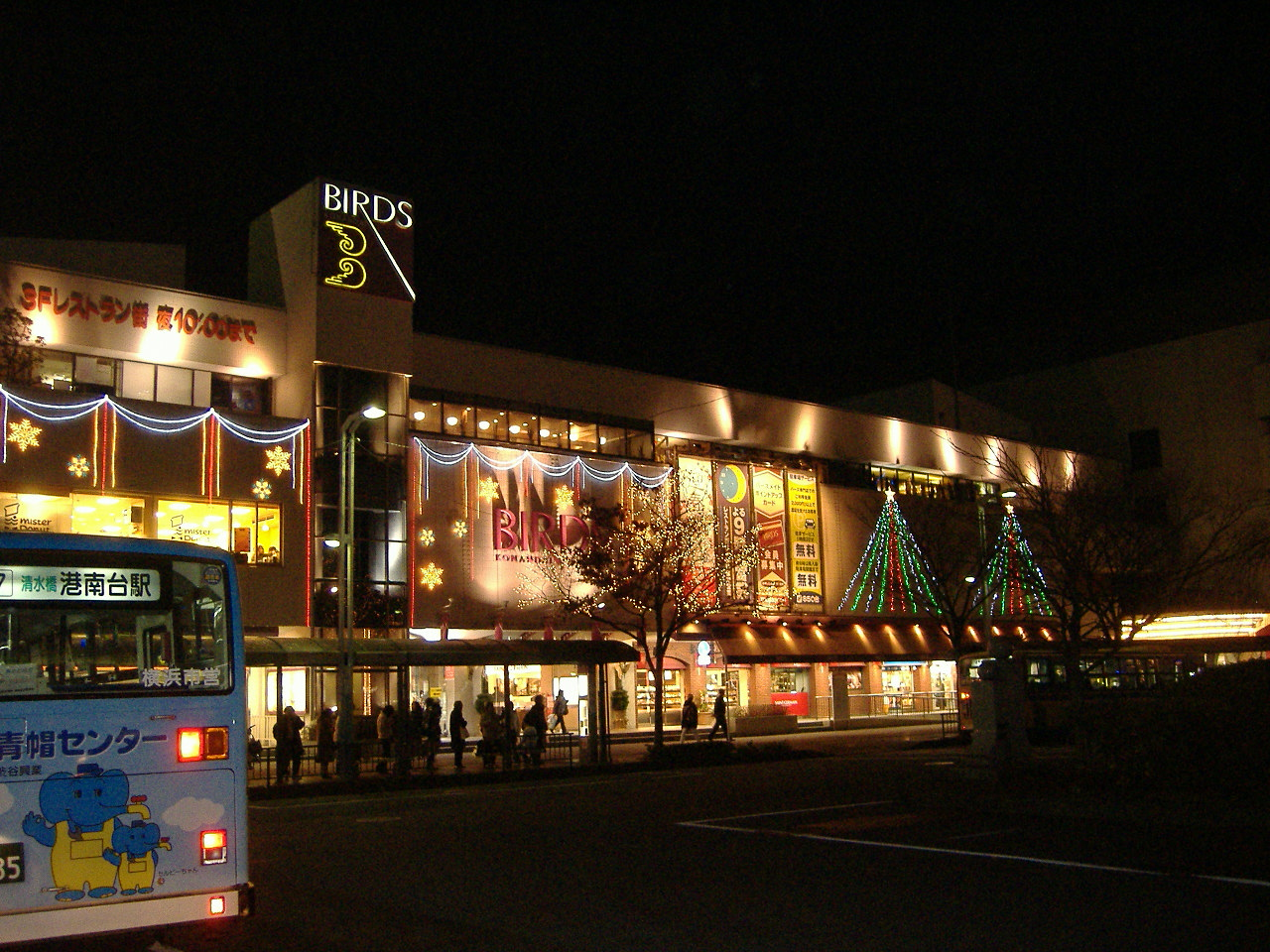 Shopping mall"Kounandai-Birds"(Yokohama,Japan)